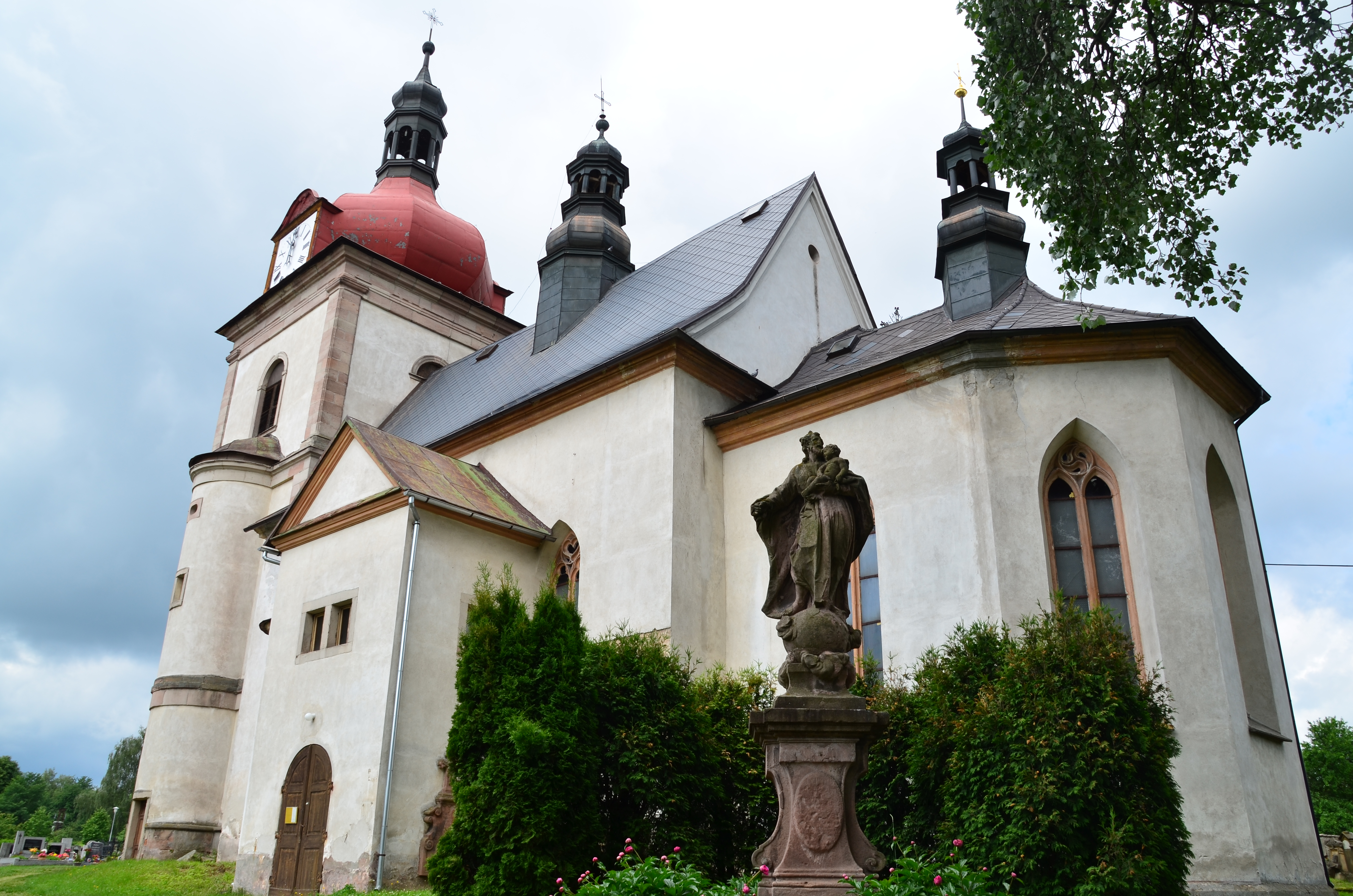 north-east view